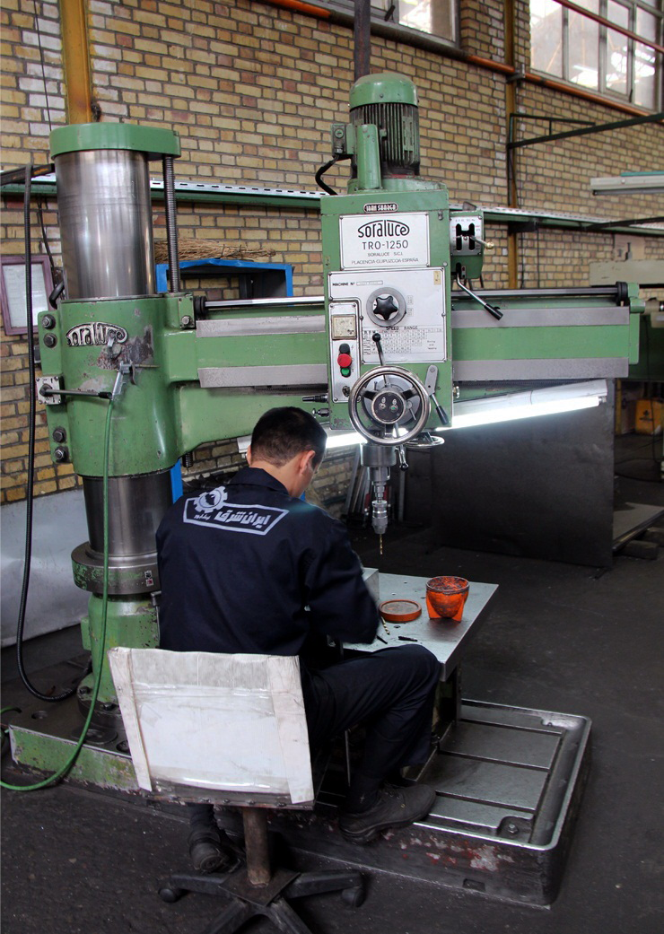 Iran Shargh Company & Factory - Nishapur